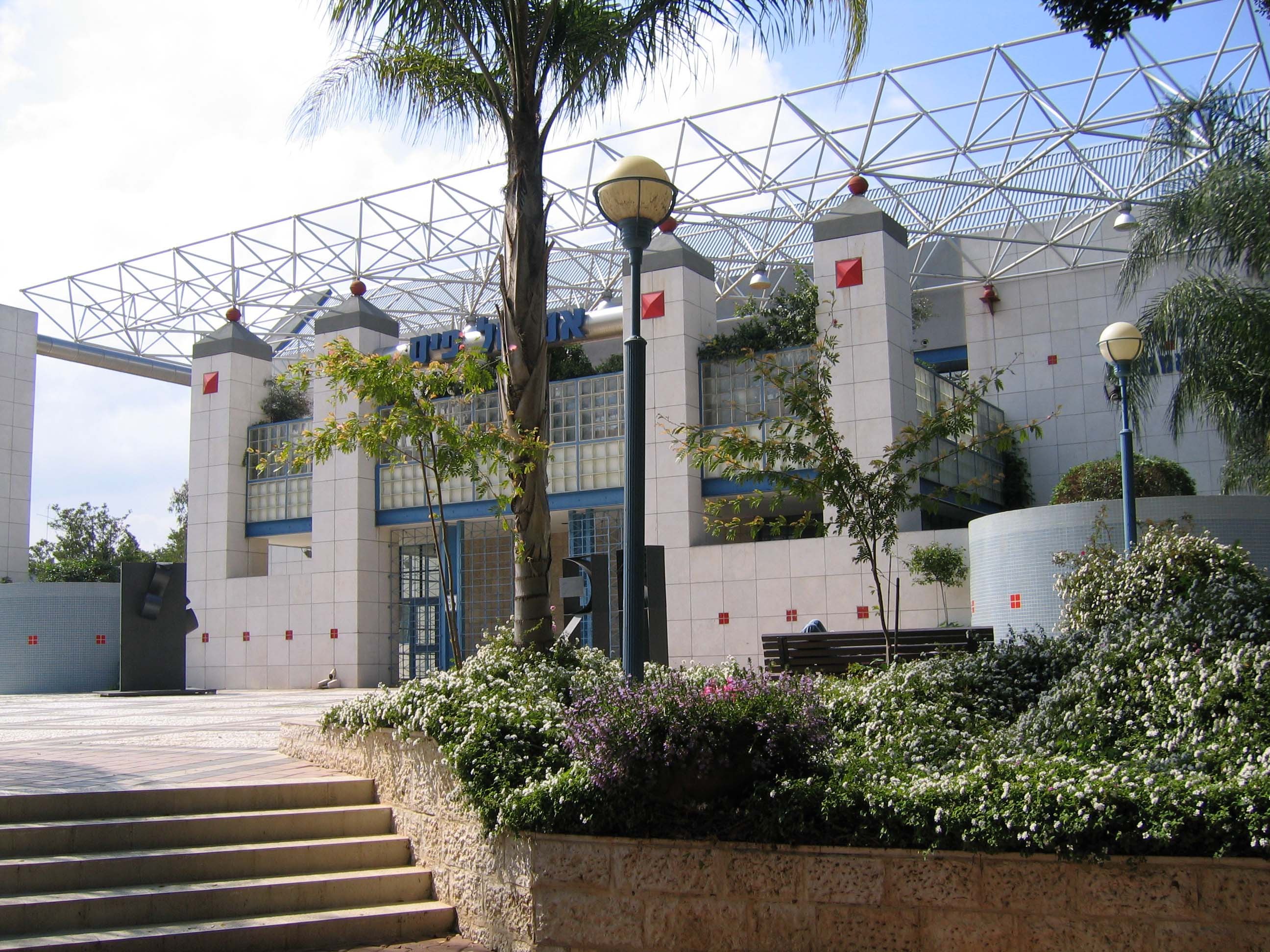 Eshkol Pais Ramat-Gan